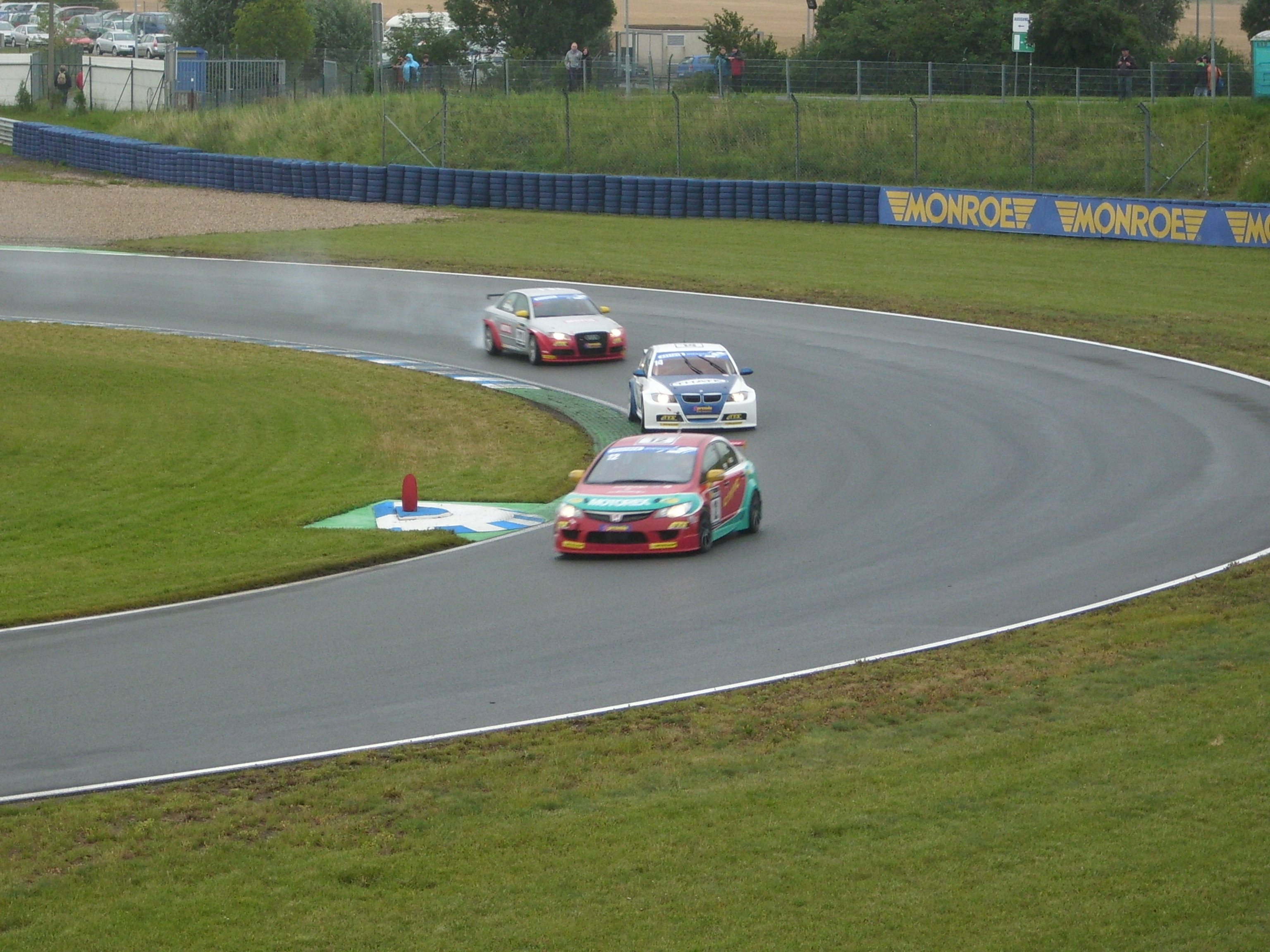 Peter Rikli in front of Jens-Guido Weimann and Andreas Kast in Division 1 fighting for Position. Andreas Kast (Berlin) was struggling with engine problems at that moment and his car was heavily smoking.